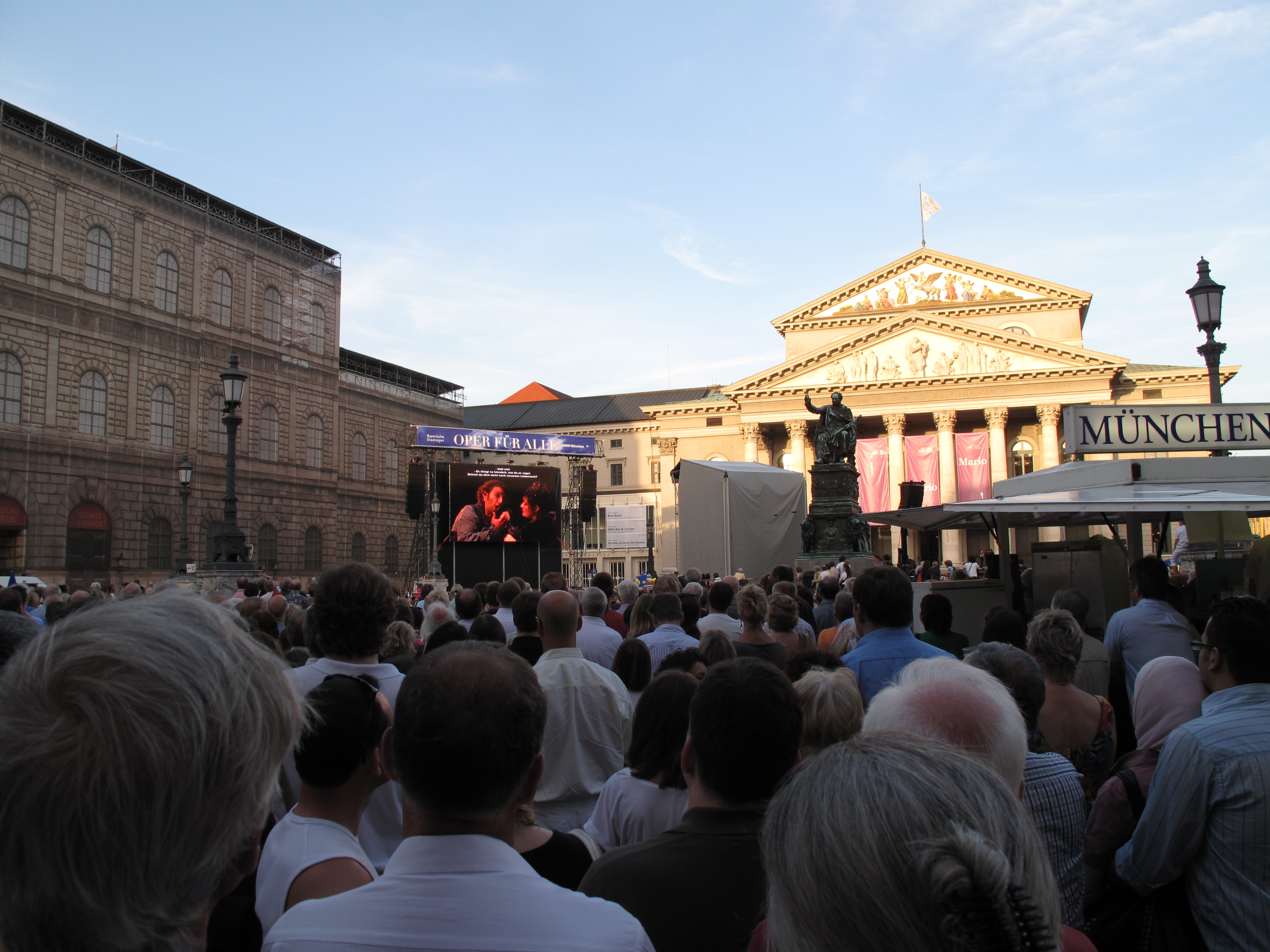 The event "Oper für alle" (Opera for everyone) by the Bayerische Staatsoper (Bavarian State Opera), performing the opera "Tosca" in 2010 in front of the Nationaltheater.